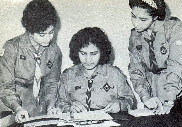 Libyan Girl Scouts in the 1960s.